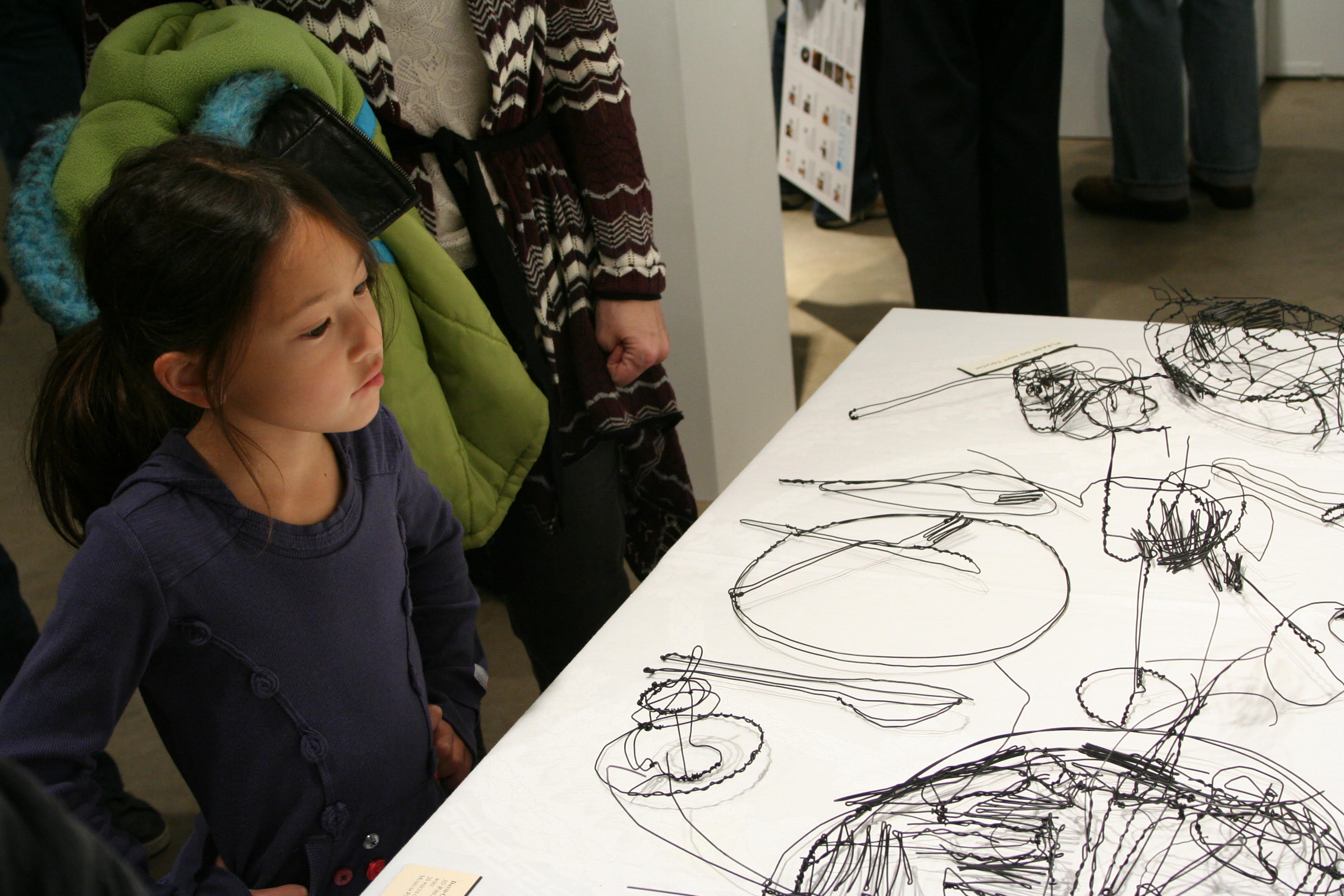 A young girl looks at a wire scribble sculpture on a white table.